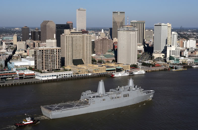 The USS New Orleans (LPD-18) passes by downtown New Orleans on the Mississippi River